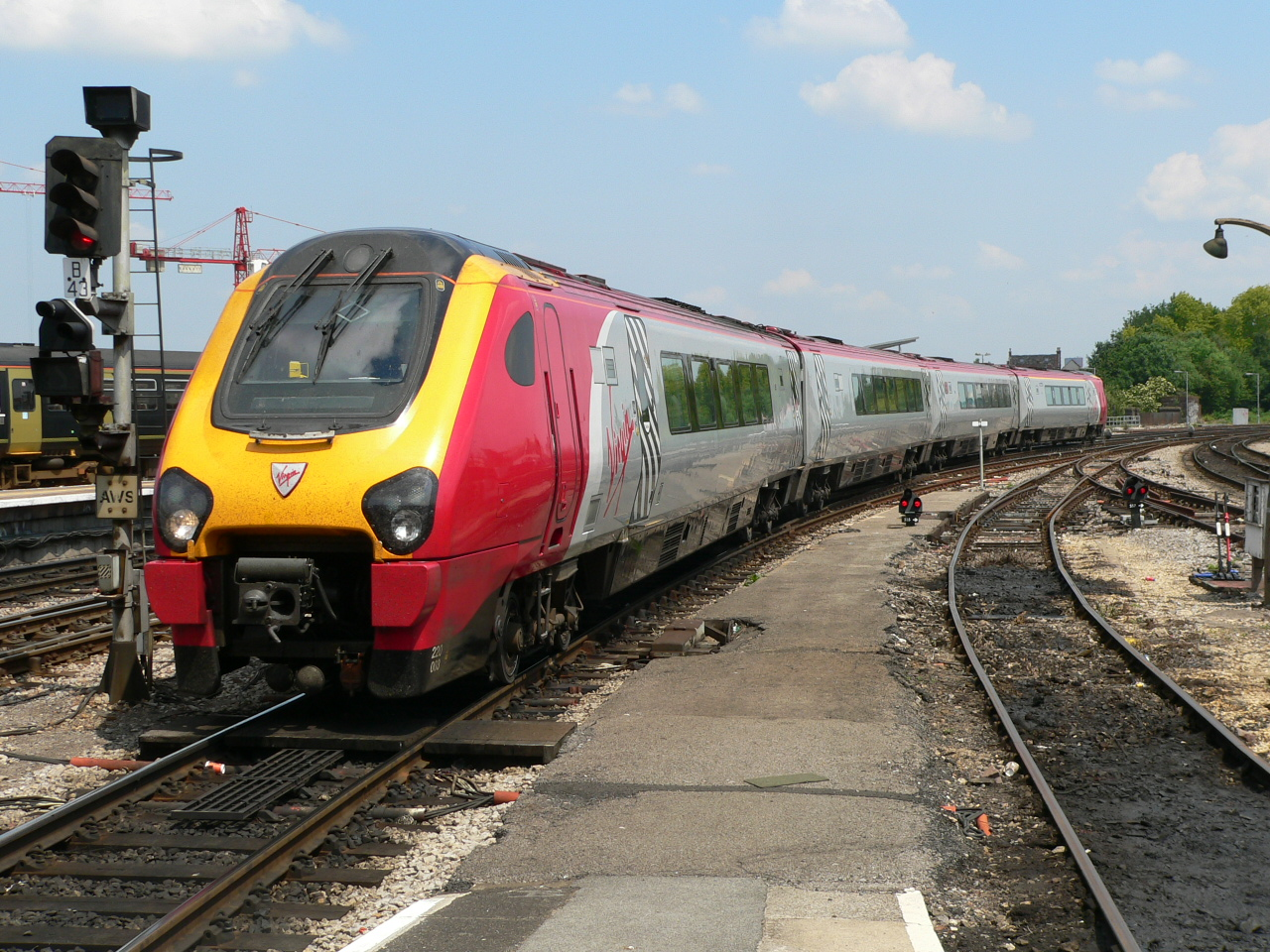 Virgin Voyager Class 220 DEMU 220003 arrives into Bristol Temple Meads station.